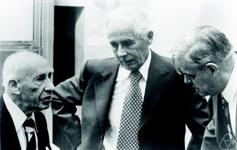 Paul Bernays (left), Kurt Schütte, Helmuth Gericke (right)